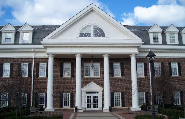 TCNJ Social Sciences Building